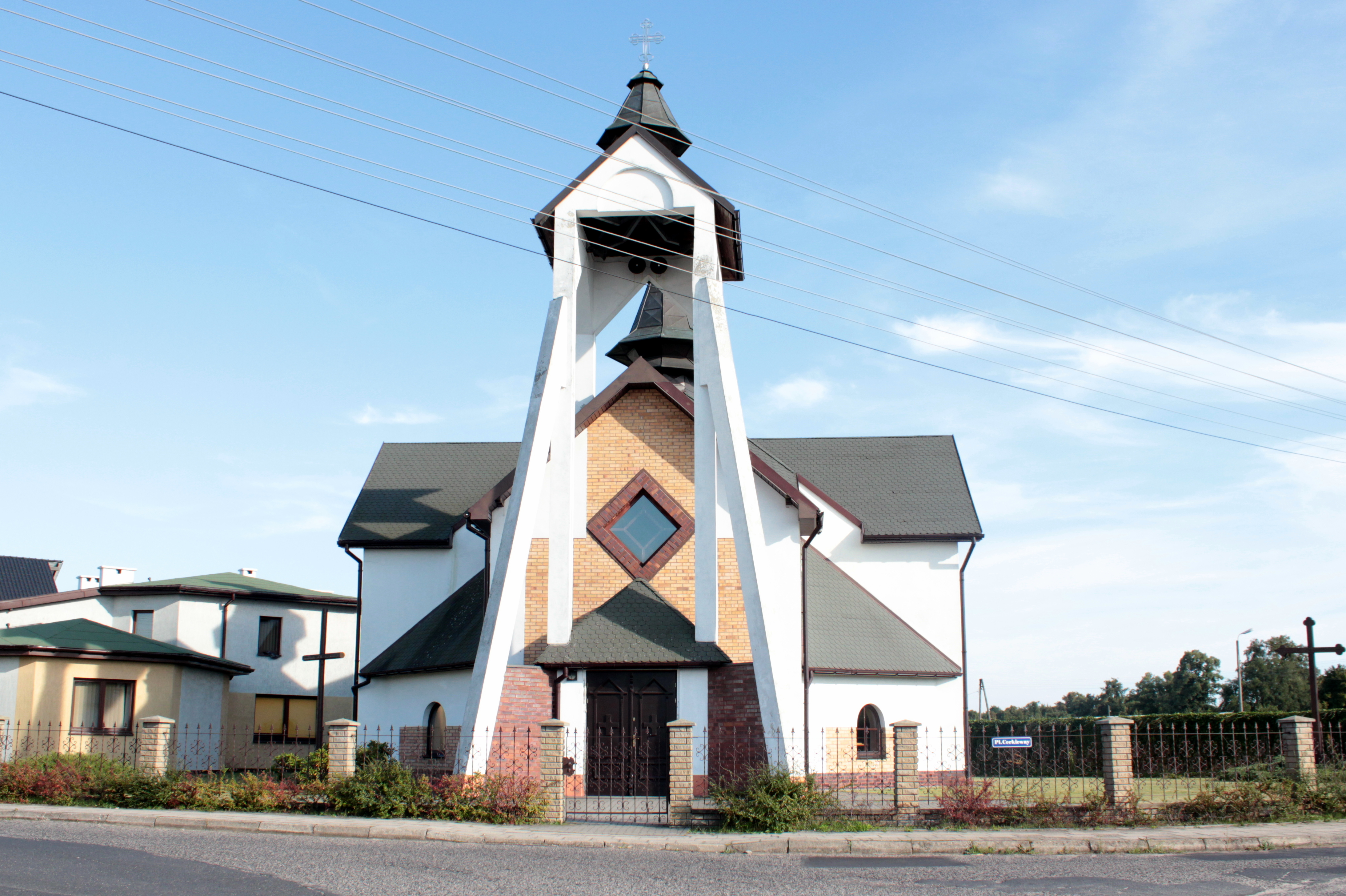 Przemków, an Greek Catholic Church temple (st. Kosma and Damien), front view.